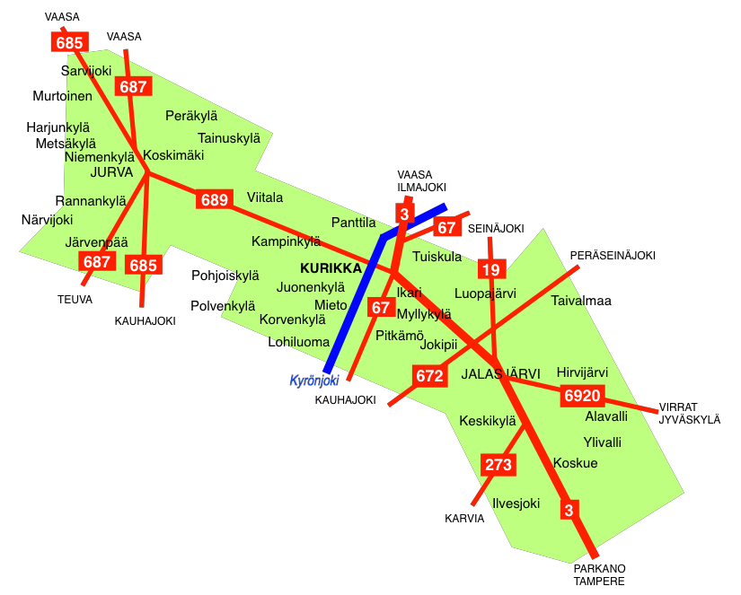 Main roads and villages of the new Kurikka municipality in Finland. From Jan. 1, 2016, it includes also Jalasjärvi in the southeast.